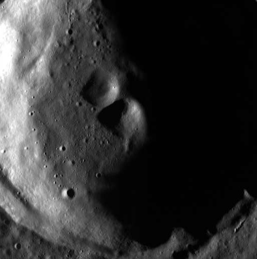 Berlioz crater interior on Mercury. MESSENGER Wide Angle Camera image. Approximate north is in upper left. Width is about 24.8 km. Emission Angle: 1.7 Incidence Angle: 83.5 Latitude: 79.3 Longitude: 38.6 Phase Angle: 85.1